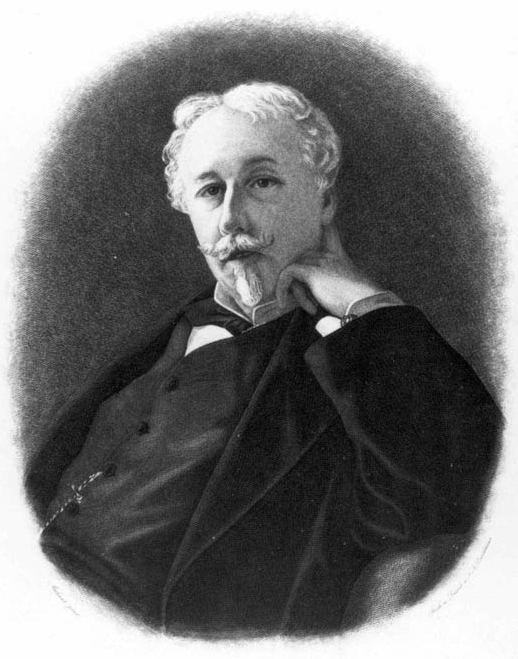 French diplomat, writer and philosopher Arthur de Gobineau (1816-1882)